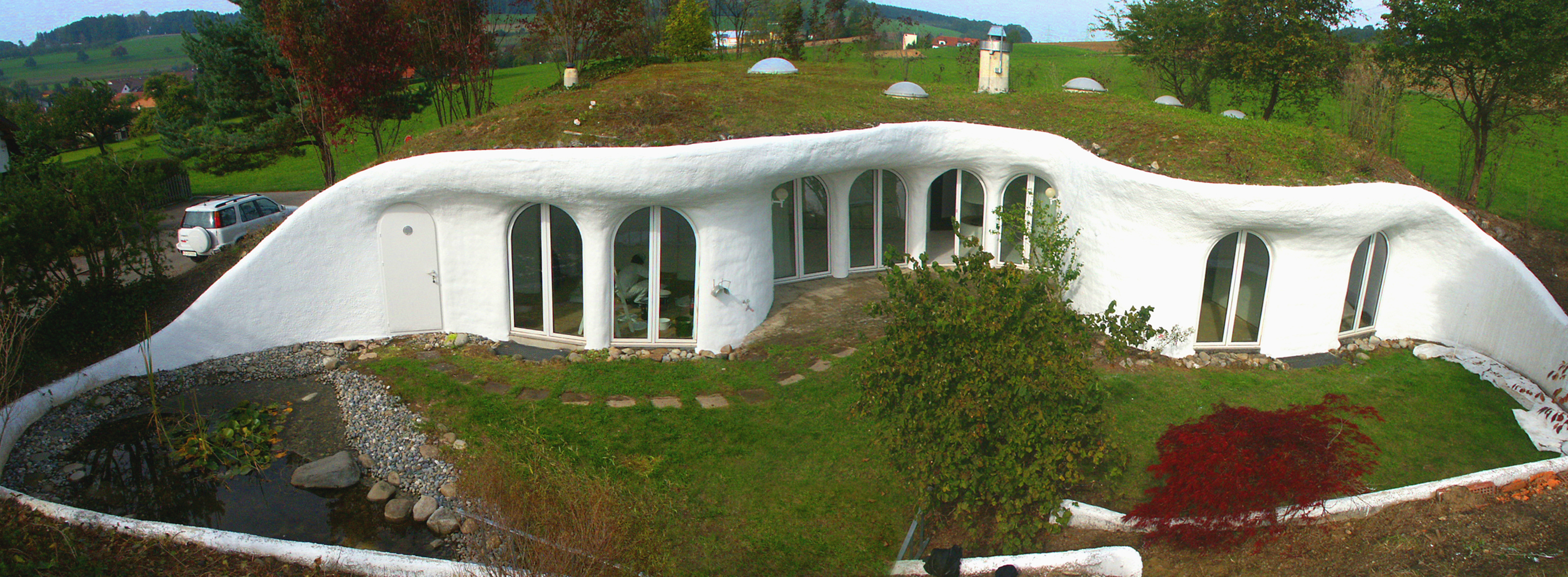 Exterior of an earth house, built by Peter Vetsch